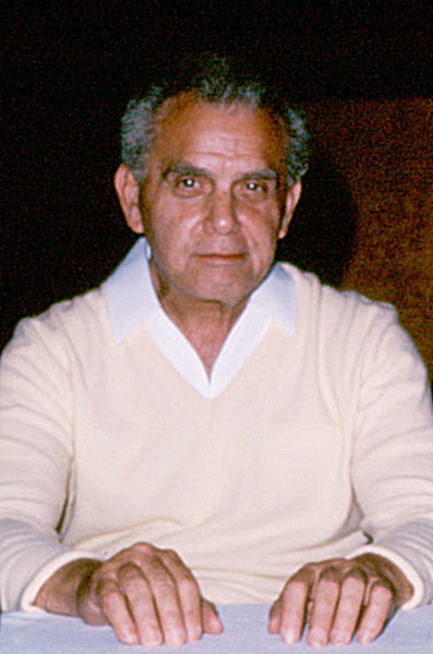 A color photograph of comic book creator Jack Kirby.